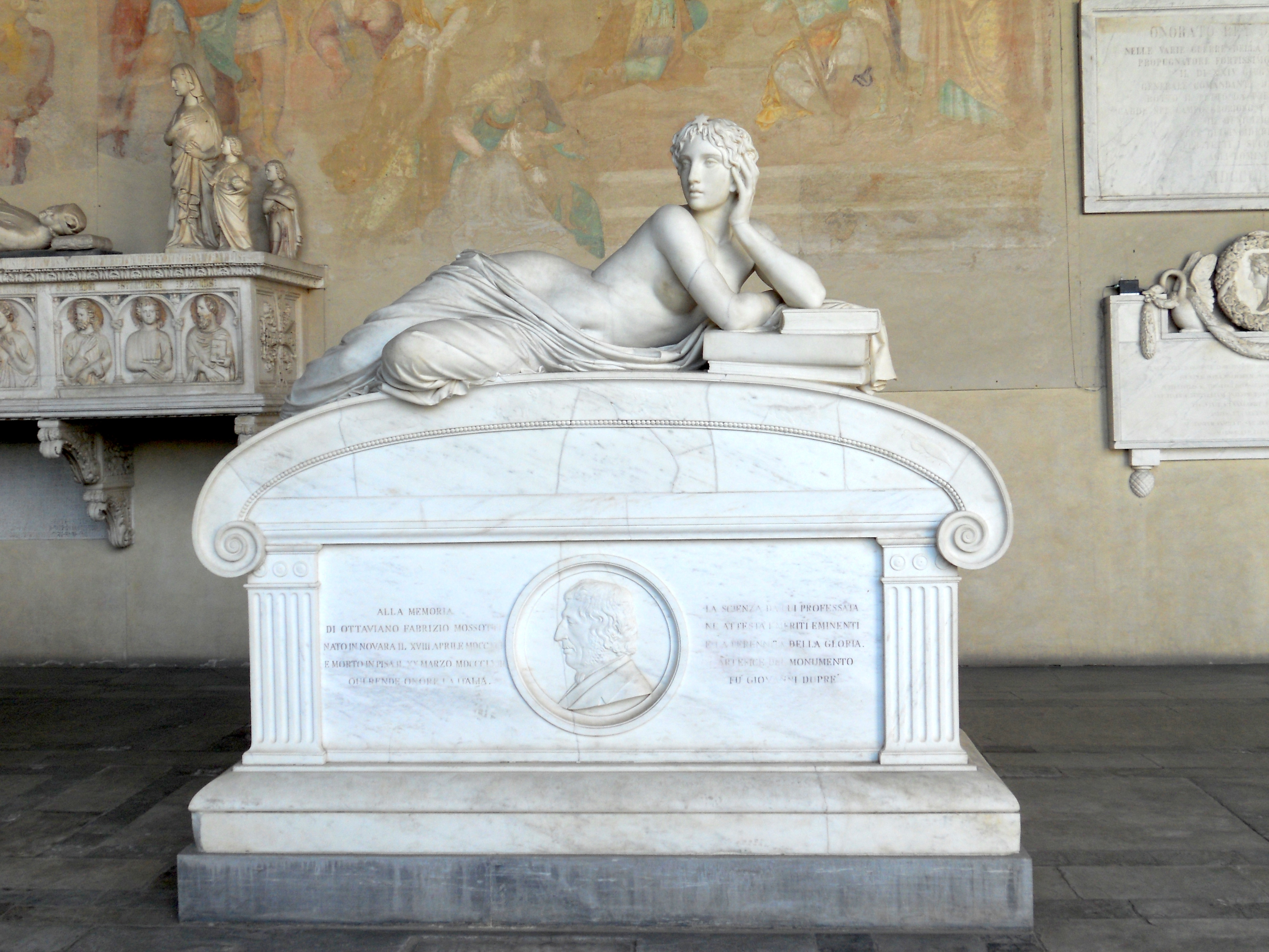 Tomb of Ottaviano Fabrizio Mossotti by Giovanni Duprè, Camposanto of Pisa. The woman is the Allegory of Astronomy.